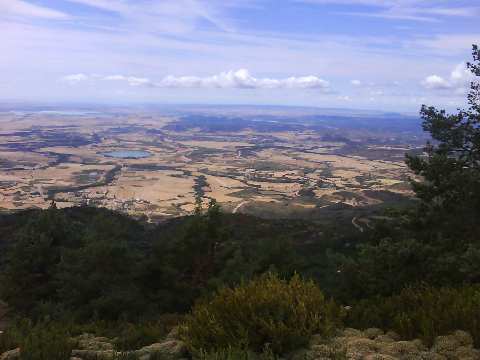 Views from Mount Loarre.